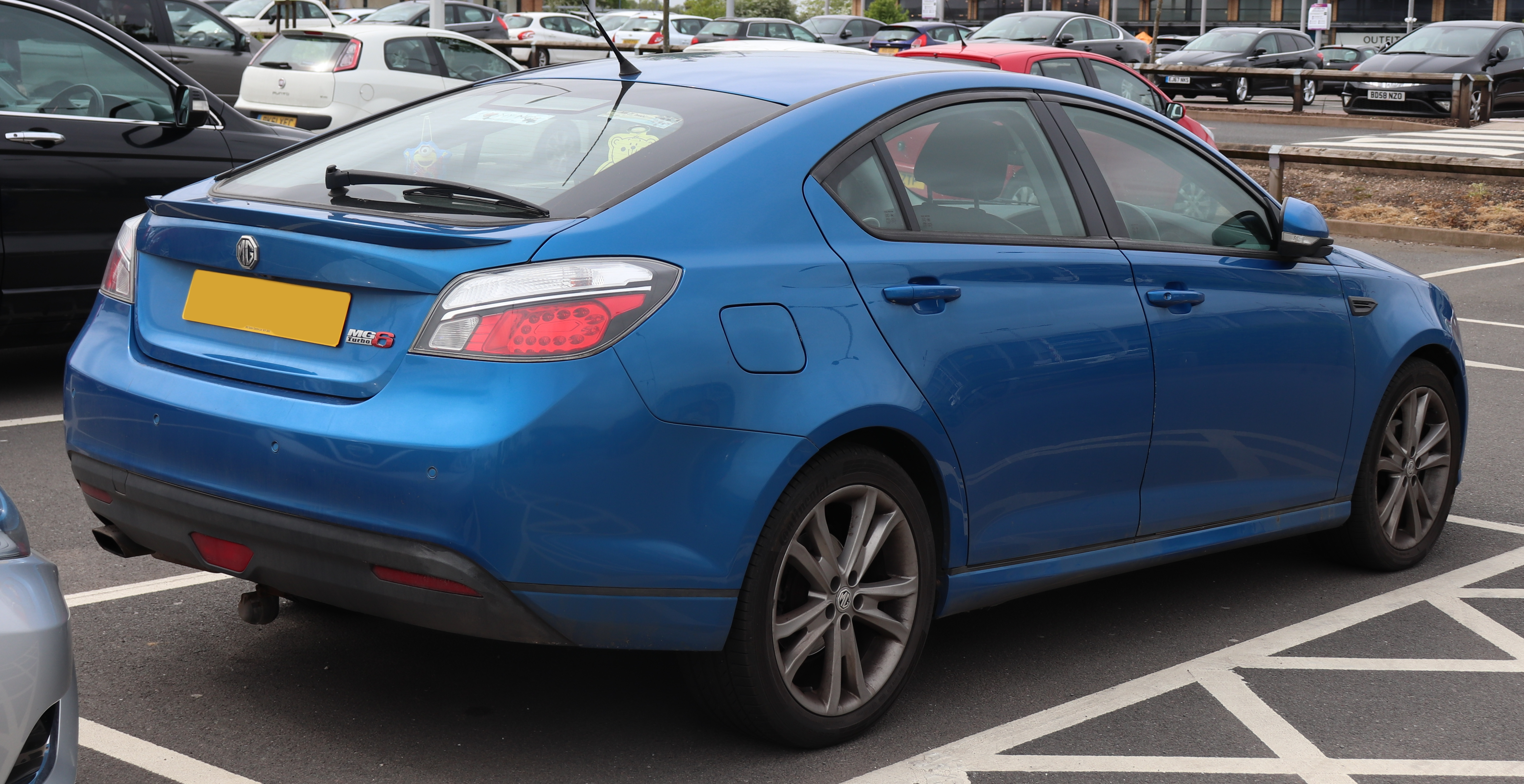 2012 MG 6 TSE GT Turbo 1.8 Rear Taken in Leamington Spa